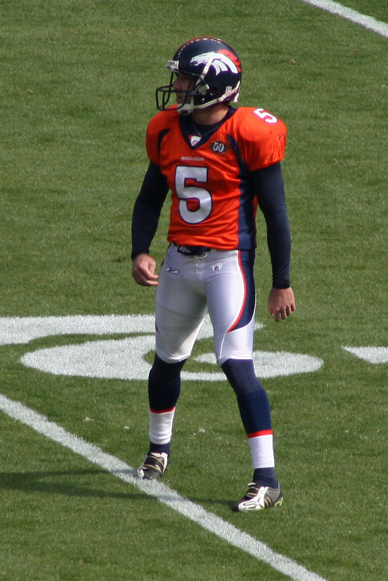 Matt Prater, a kicker with the Denver Broncos American football team.